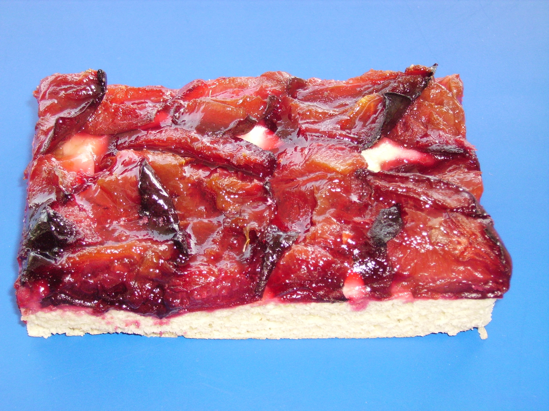 A piece of plum cake